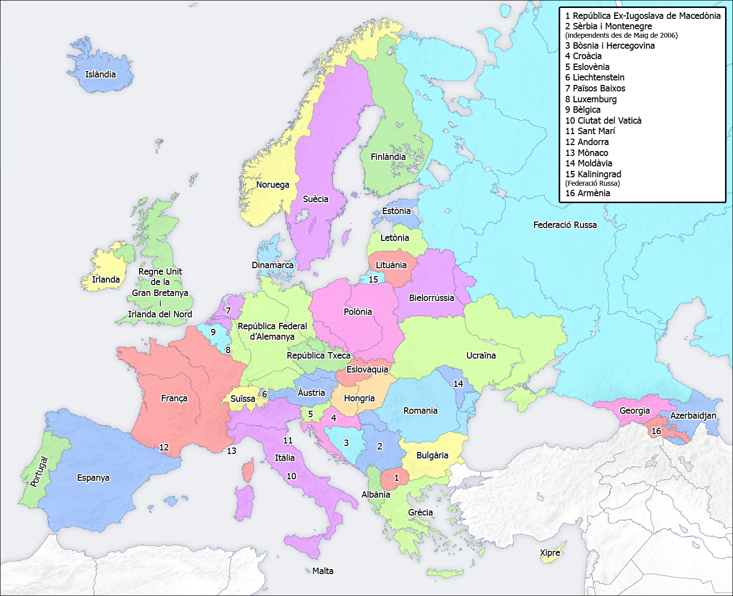 Political Map of Europe Texted in Catalan